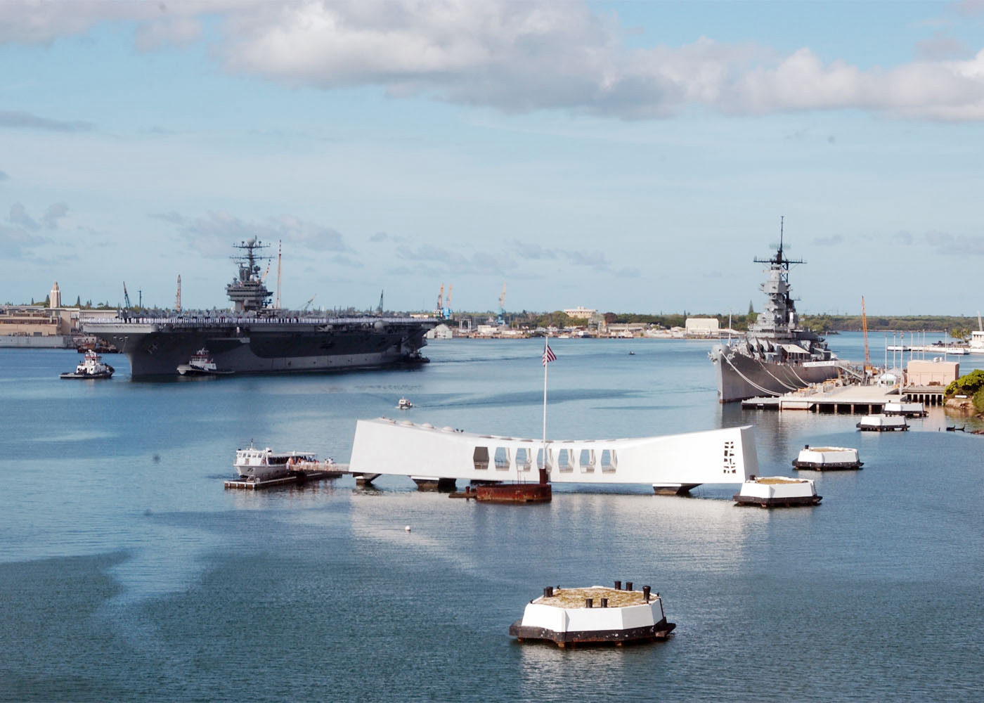 020801-N-8794V-009 Pearl Harbor, Hawaii (1 August 2002) -- Sailors aboard the aircraft carrier USS Abraham Lincoln (CVN-72) man the rails as they pass the USS Arizona Memorial and battleship USS Missouri (BB-63). (RELEASED)